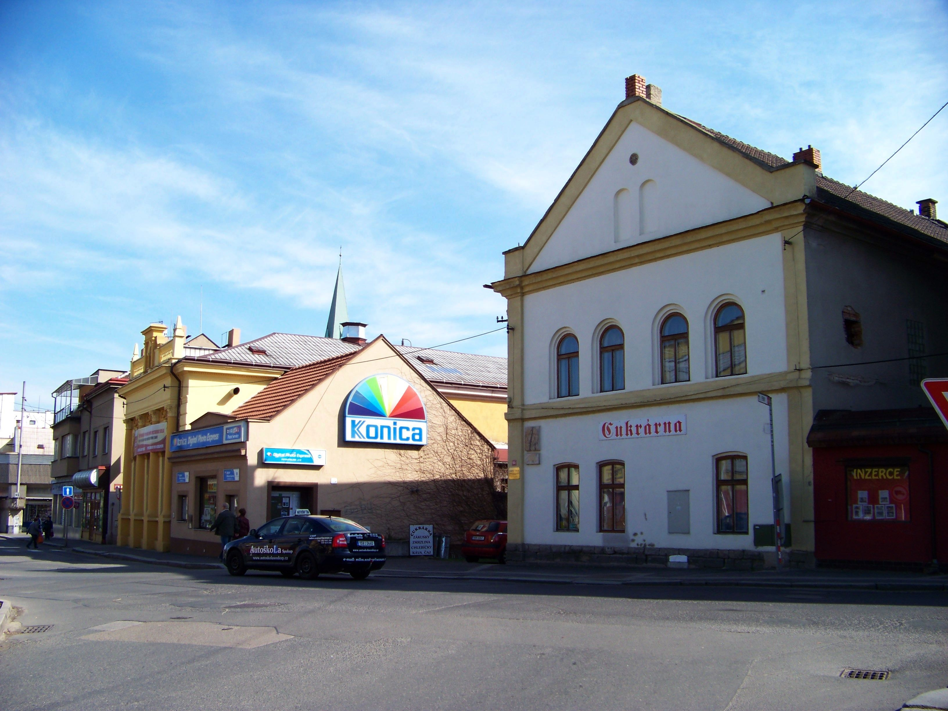 Kralupy nad Vltavou, Mělník District, Central Bohemian Region, the Czech Republic. S. K. Neumanna street, former synagogue.